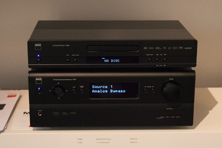 // Exhibits at HighEnd 2009 trade show, Munich, April 2009